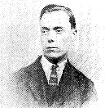 Frederick Atkinson, artist, died 1929 by suicide.